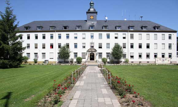 Image of United States Army Garrison Schweinfurt's Ledward Barracks HQ building.